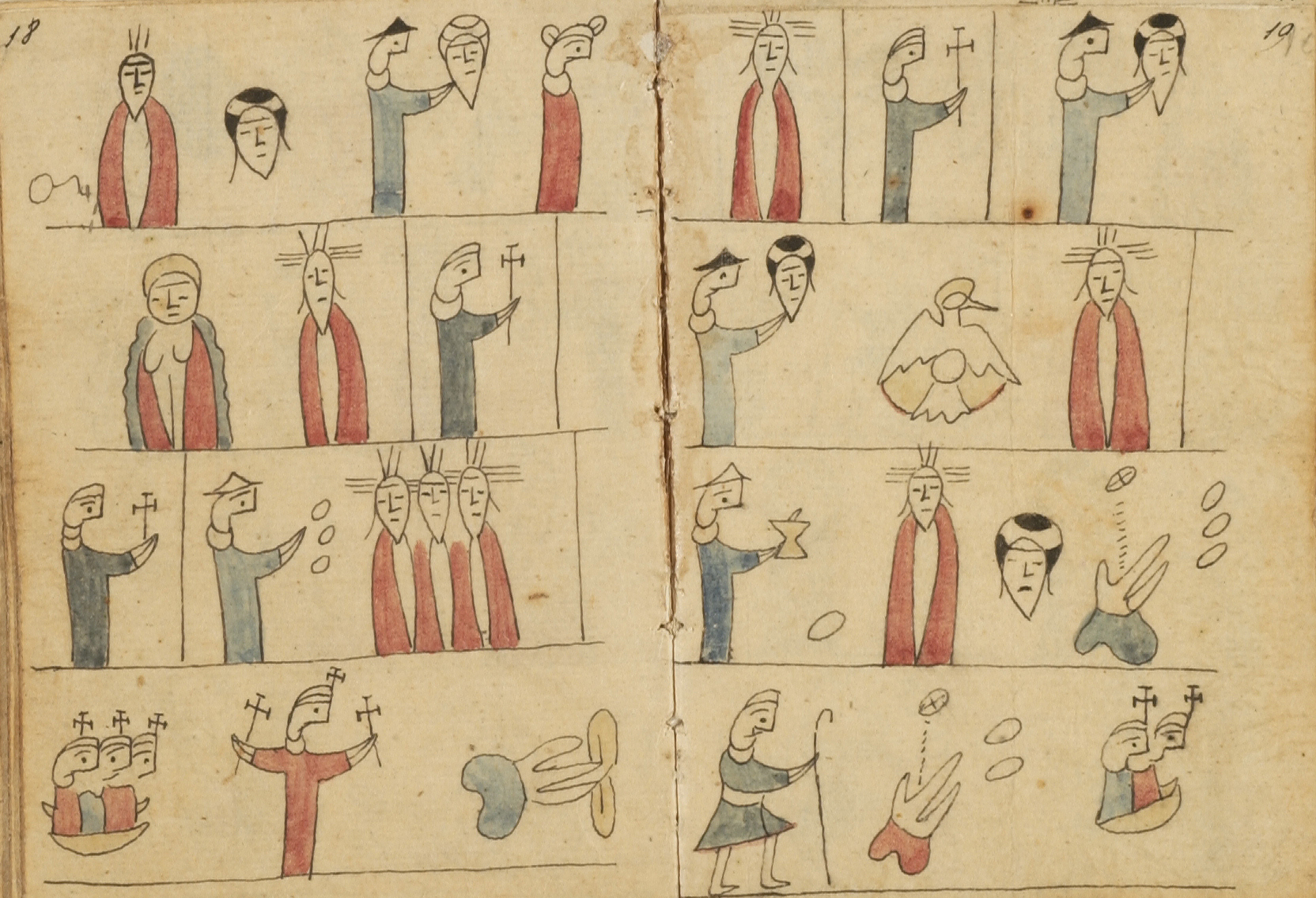 A pictorial Otomi catechism.